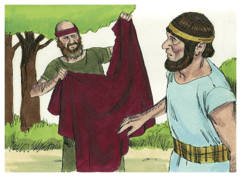 Biblical illustration of First Book of Kings Chapter 11